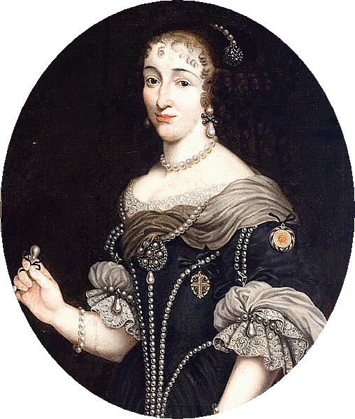 Portrait of Claire Isabelle Pac, née Lascaris de Mailly-Lespine.